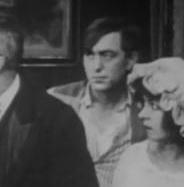 Harry Carey in a scene from the movie "The Painted Lady" (1912, directed by David Wark Griffith).